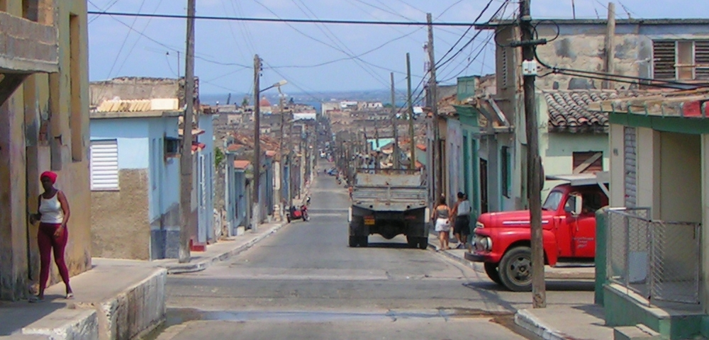 Street in Matanzas, Cuba